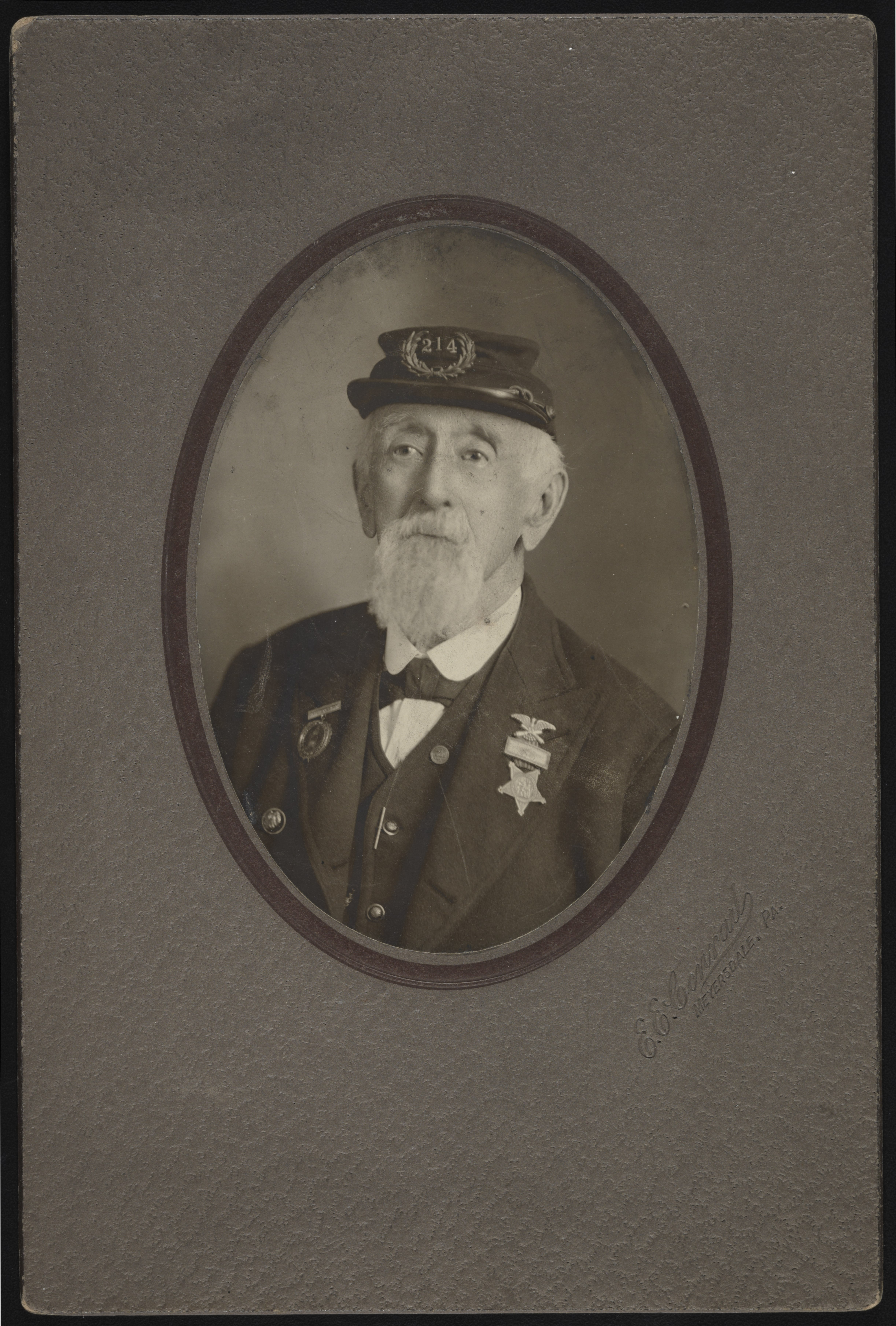 Title: Civil war veteran J.D.M. Armburst] / E.E. Conrad, Meyersdale, Pa Abstract/medium: 1 photograph : gelatin silver print ; sheet 13 x 9 cm, mount 23 x 15 cm.